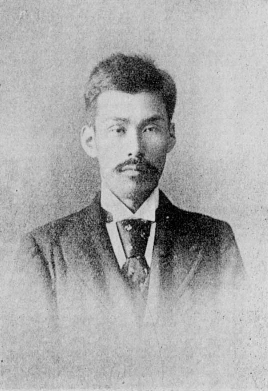 Mr. Mataichi Koizumi, professor of the Higher Normal School and superintendent of the Elementary School attached to the School.